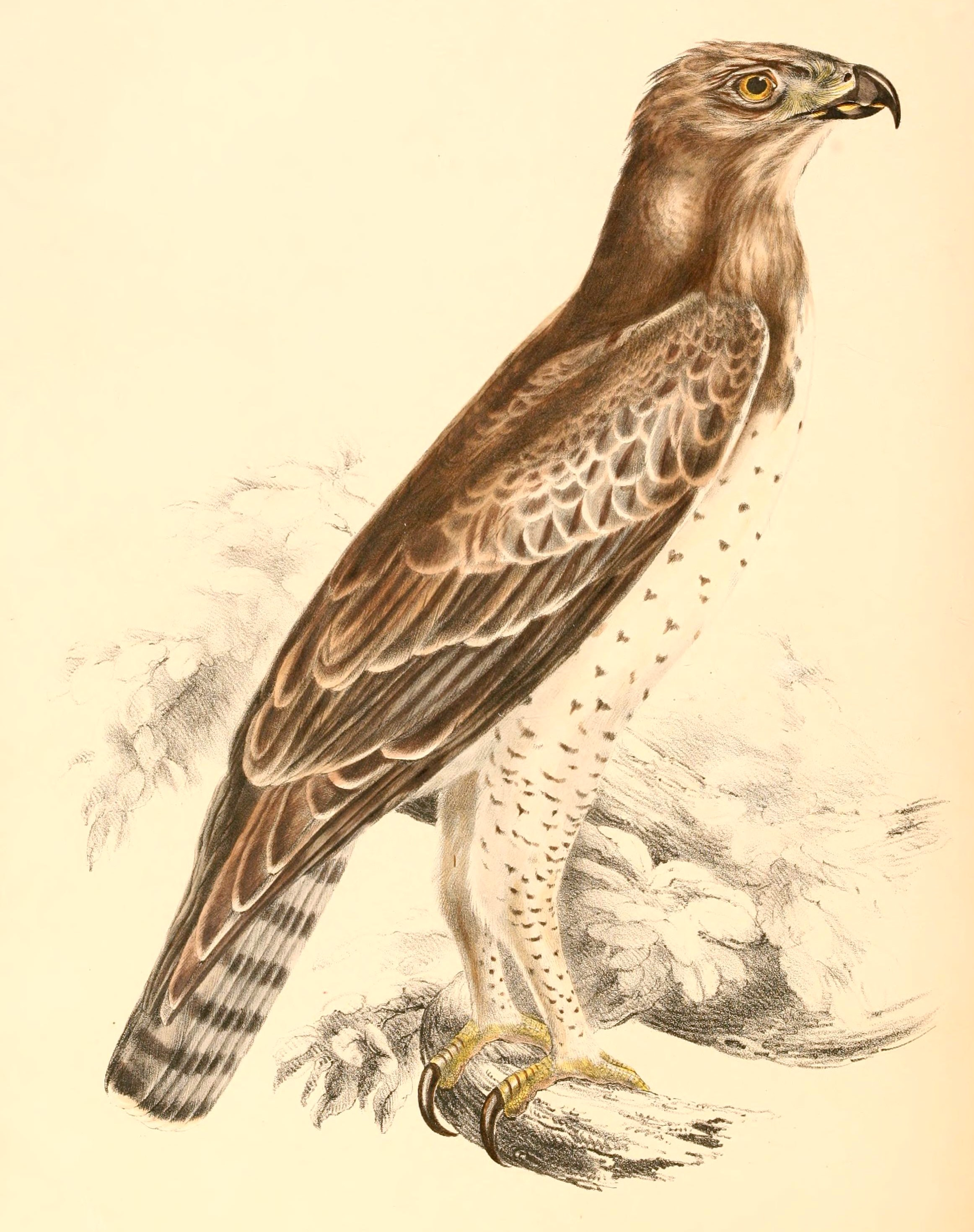 « Aquila bellicosa » = Polemaetus bellicosus (Martial Eagle) - middle-aged female